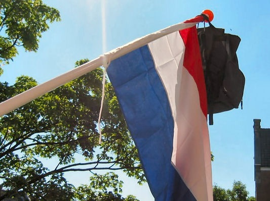 Dutch flag with a rucksack hanging on it. It is a custom to celebrate thus when someone has passed their (secondary school) exams.